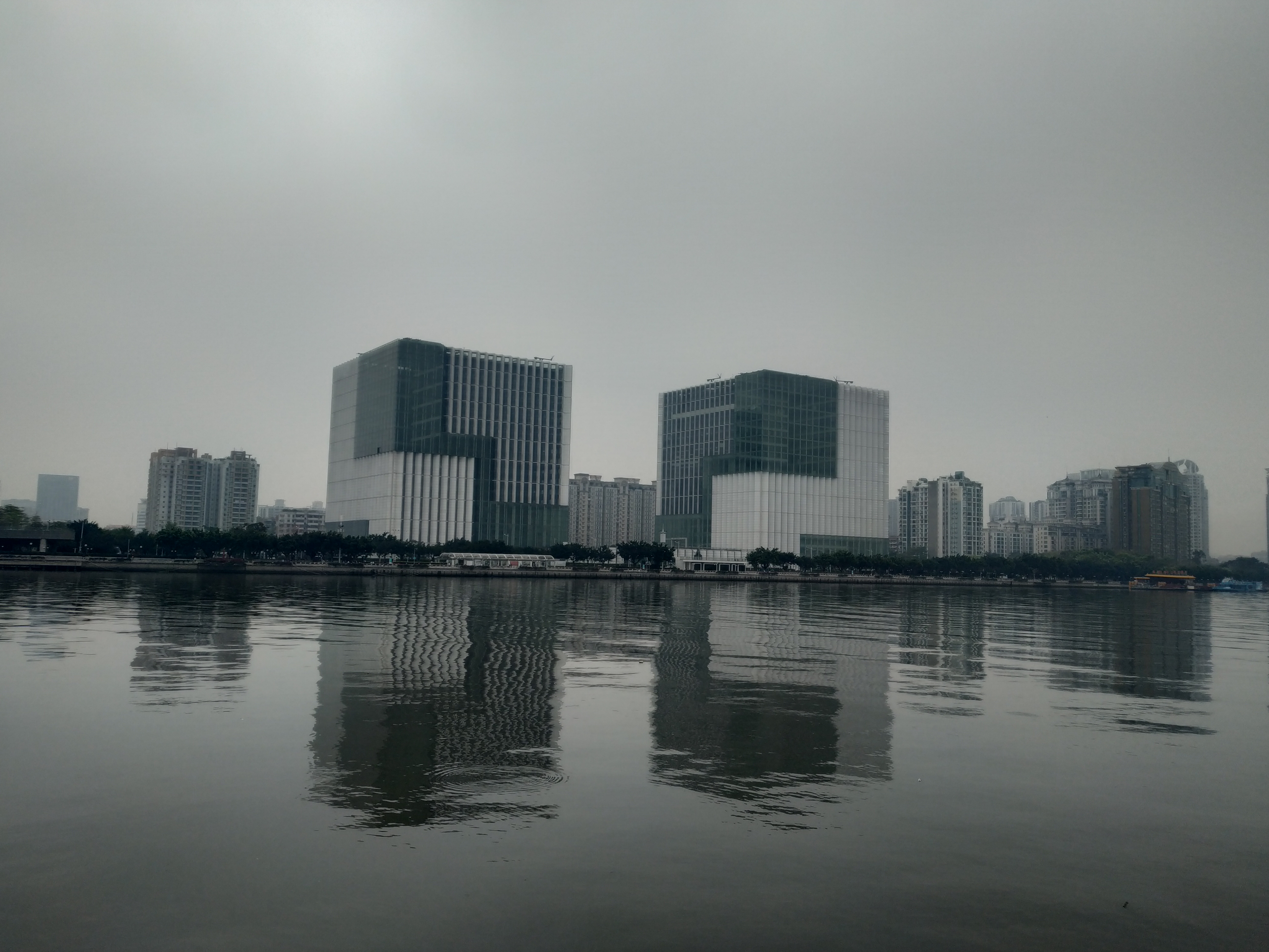 The Guangzhou International Media Harbour, headquarters of The Guangzhou Broadcasting Network's TV department. 中文（中国大陆）: 广州广播电视台电视部所在地——广州国际媒体港 中文（香港）: 廣州廣播電視台電視部所在地——廣州國際媒體港